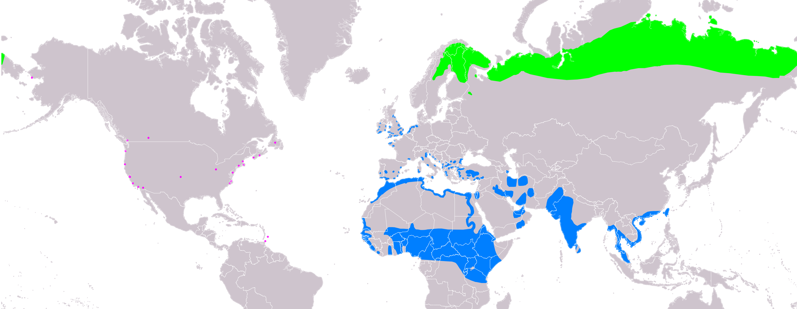 Distribution map of spotted redshank (Tringra erythropus) according to IUCN version 2020.1 (Compiled by: BirdLife International and Handbook of the Birds of the World (2016) 2007); key: Legend: Extant, breeding (#00FF00), Extant, non-breeding (#007FFF), Extant & Vagrant (seasonality uncertain) (#FF00FF)